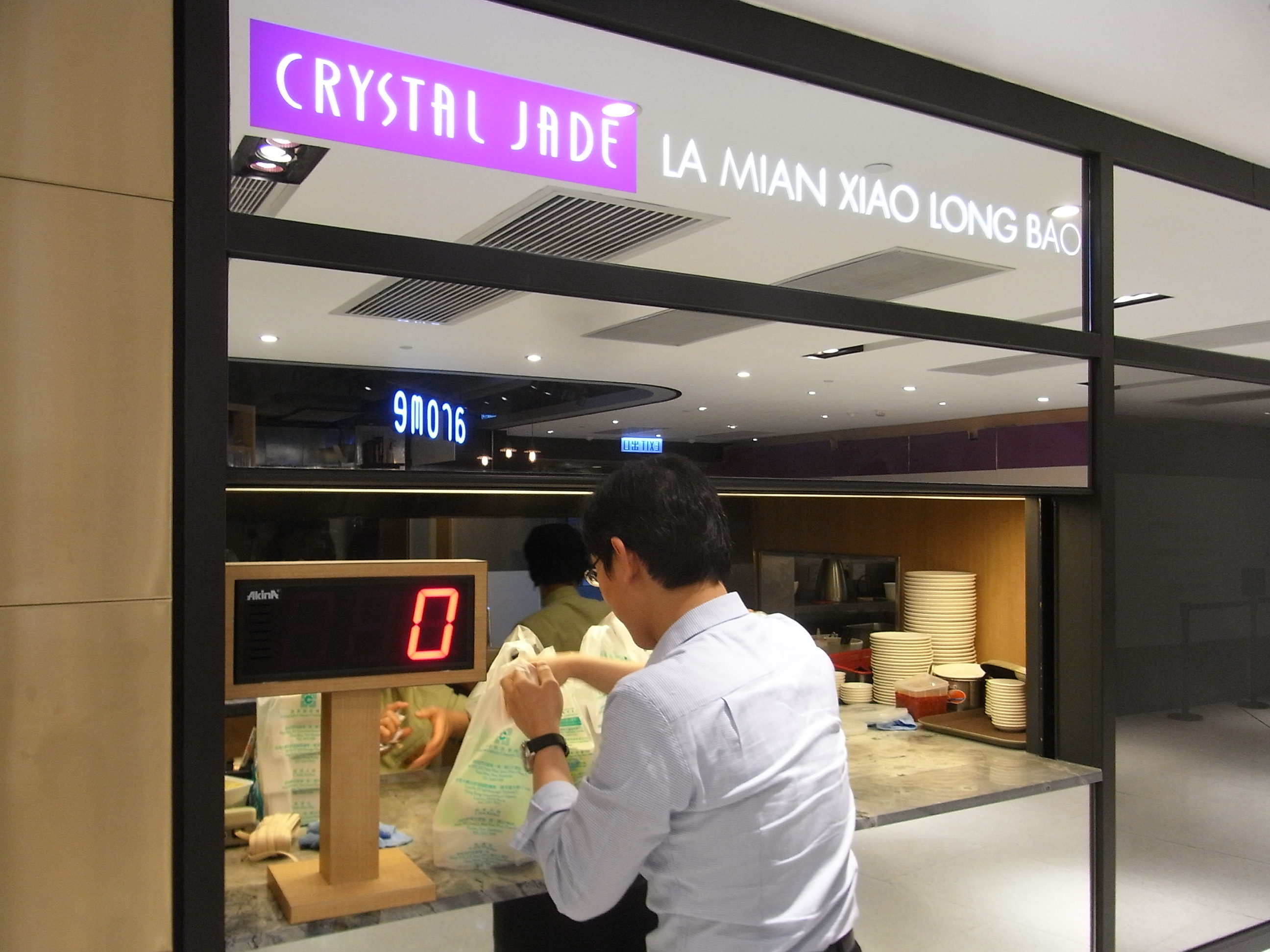 金鐘廊, LAP Concept, Queensway Plaza, Hong Kong